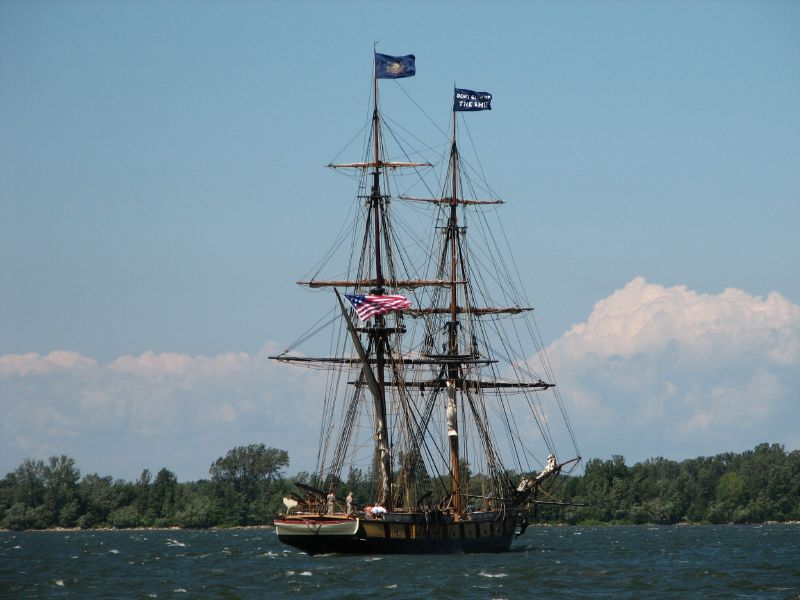 The US Brig Niagara on Presque Isle Bay in Erie.